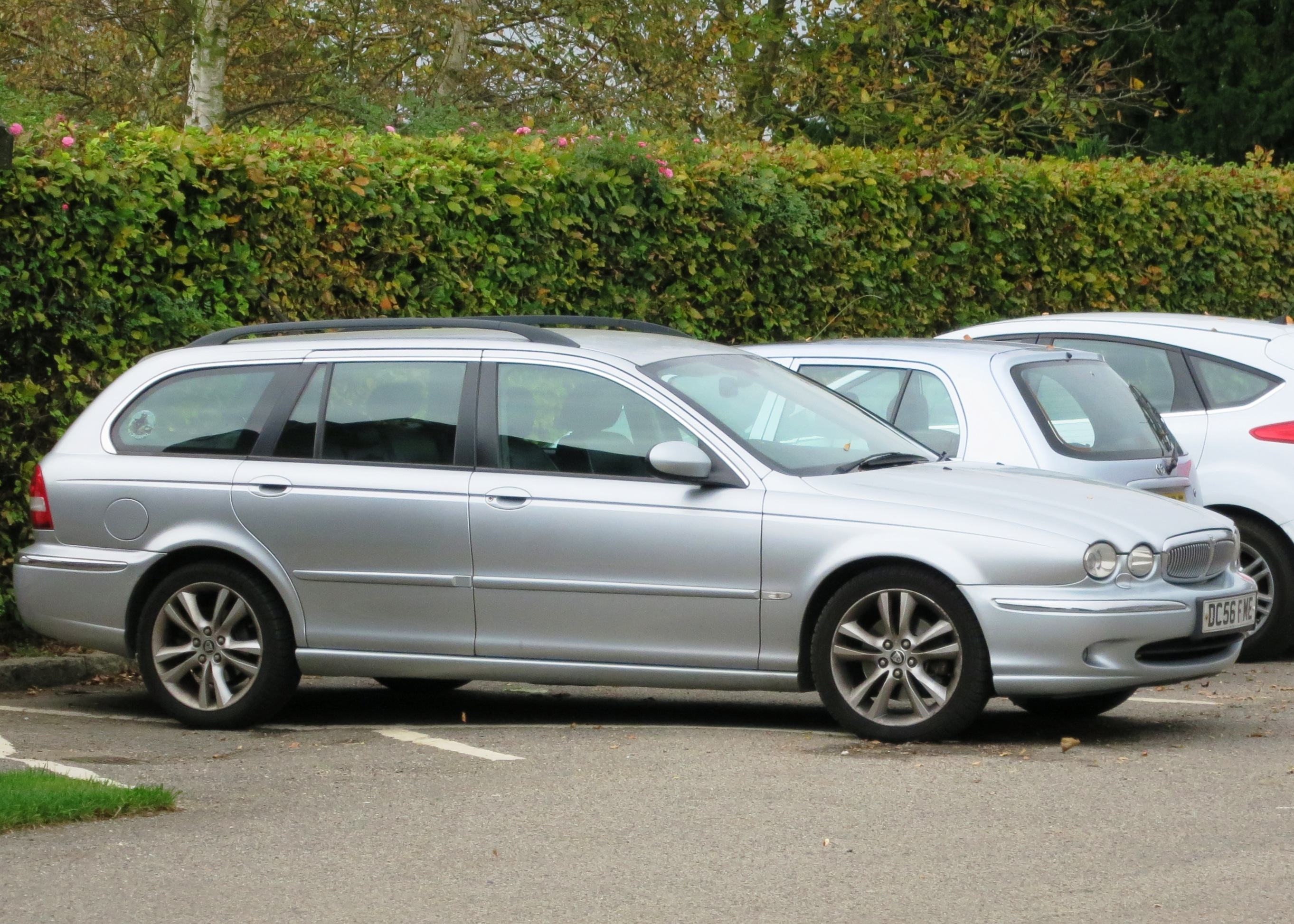 Jaguar X-Type Kombi Diesel in Essex The license plate has been changed for anonymization purposes. Note that the year code remains correct, however.